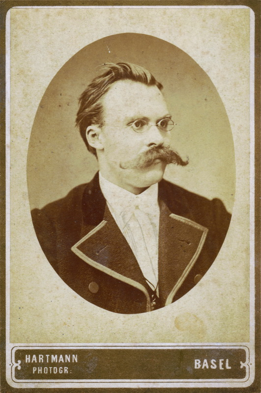 Friedrich Nietzsche as Professor of Classical Philology at the University of Basel in Switzerland.